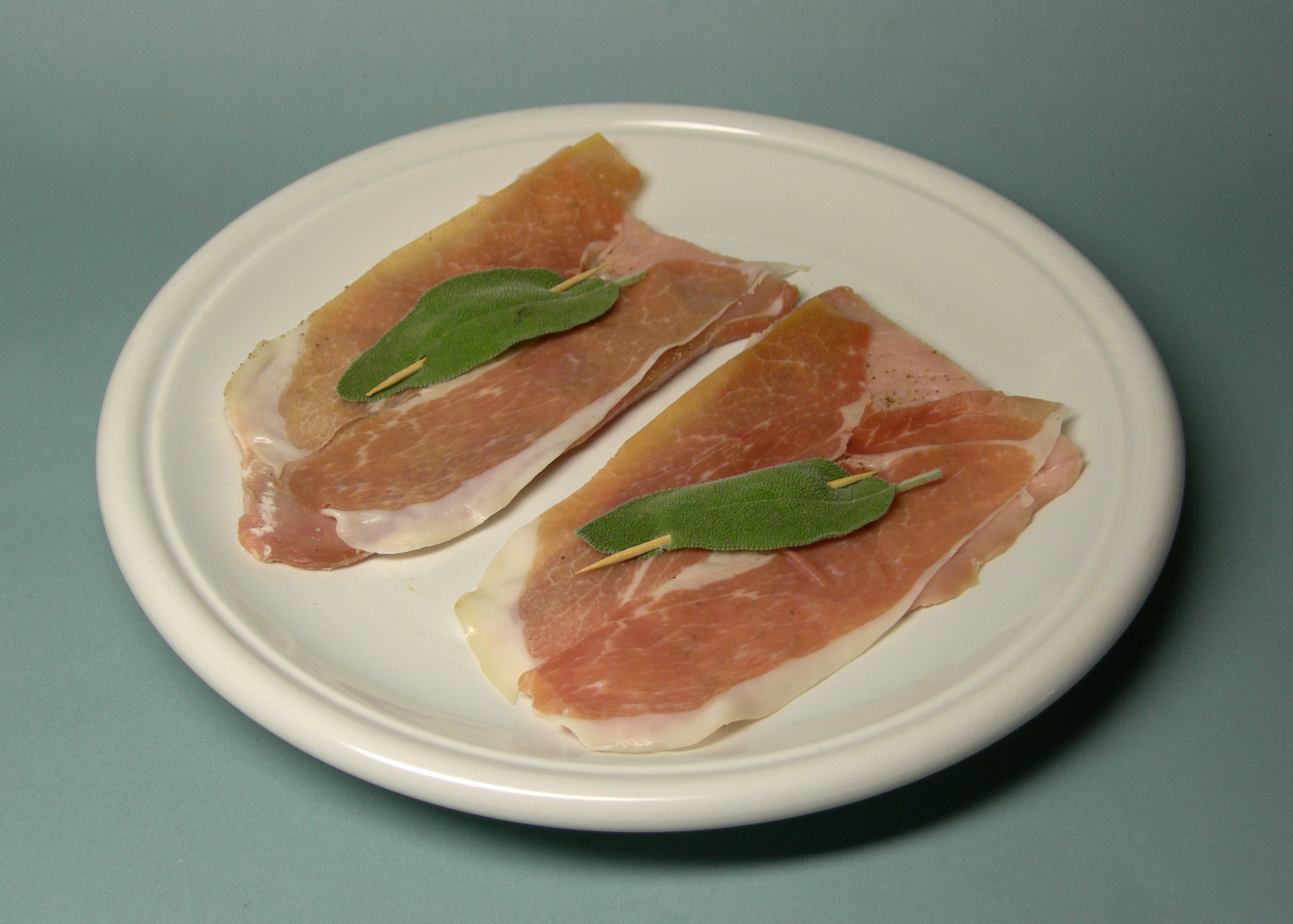 Two slices of saltimbocca ready for frying